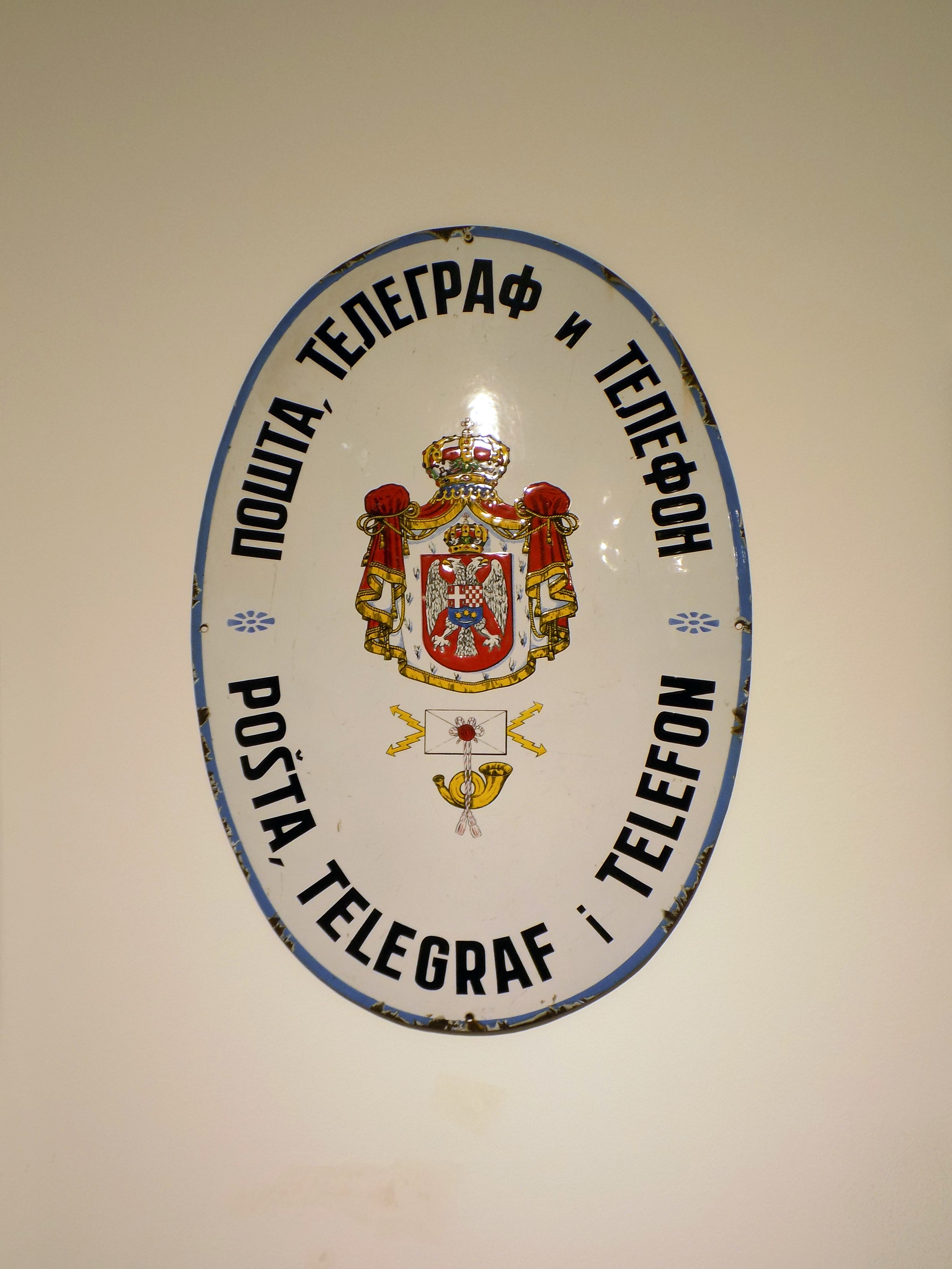 Postal name plate in Kingdom of Yugoslavia